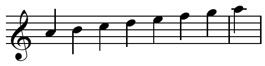 Diatonic scale on C, French violin clef.